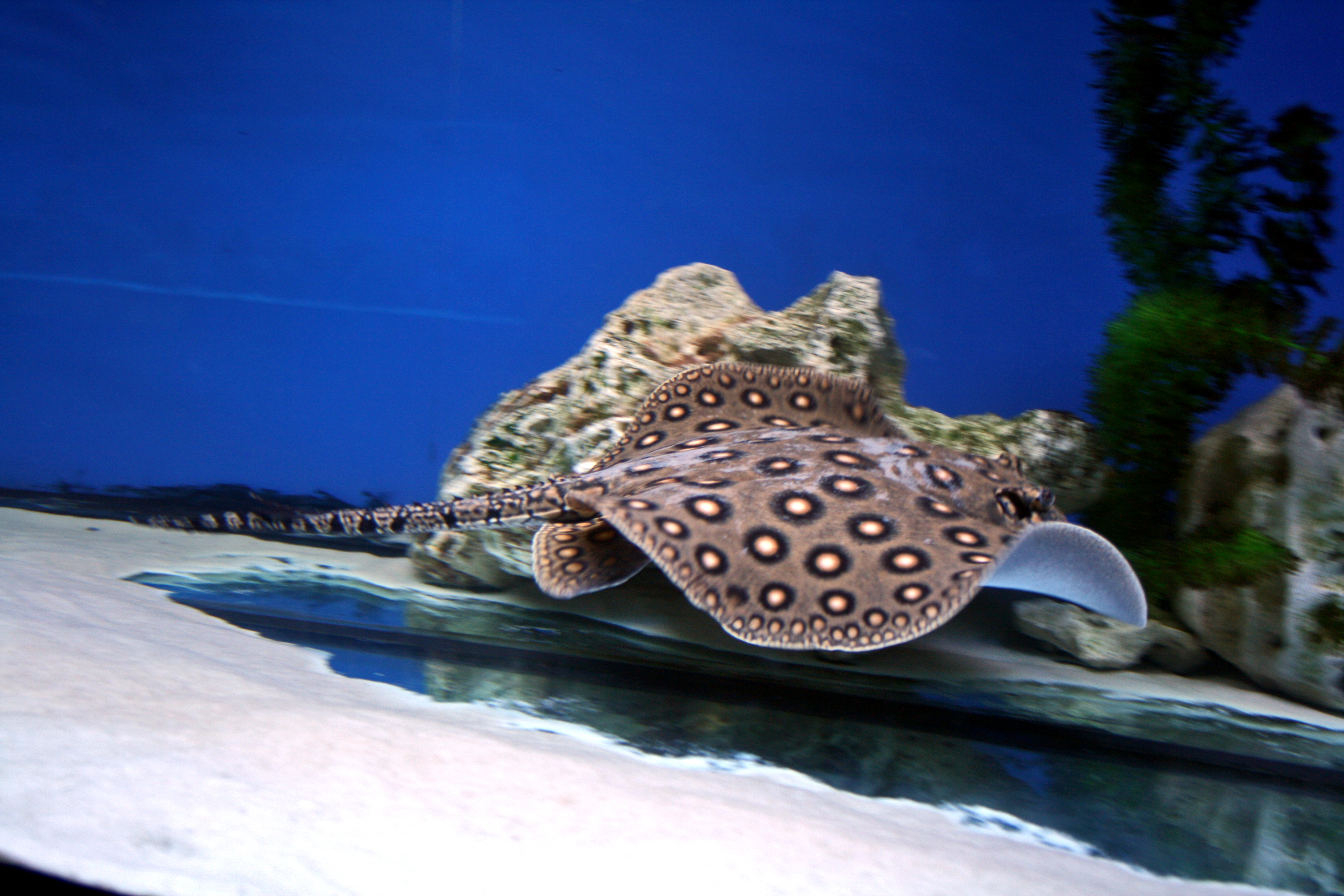 Fish Ocellate river stingray, Potamotrygon motoro in Prague sea aquarium, Czech Republic